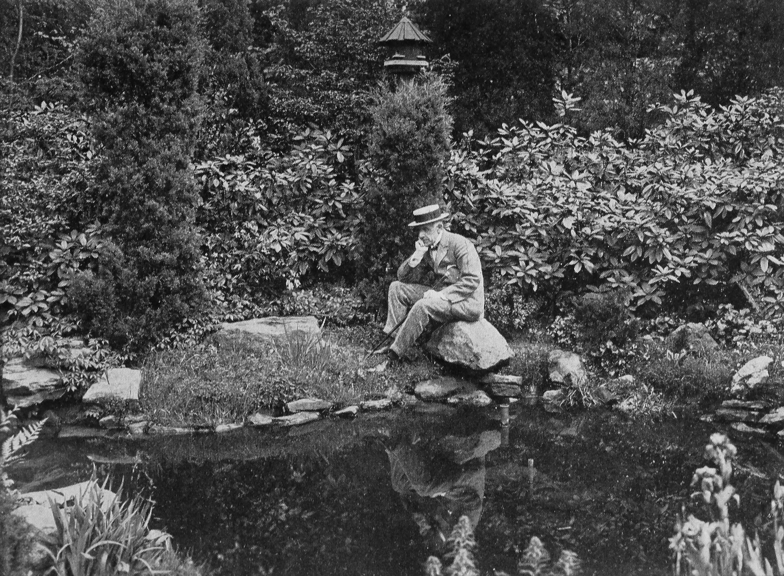 Where Edward Bok is Happiest: In His Garden, possibly Bok Tower Gardens, Florida, still open today, but the book seems to be unclear about the location of this picture